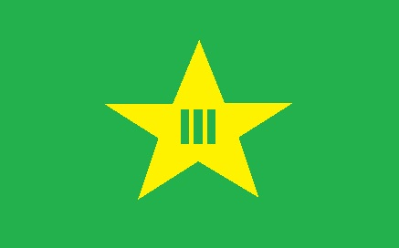 Flag of Okawa Kochi